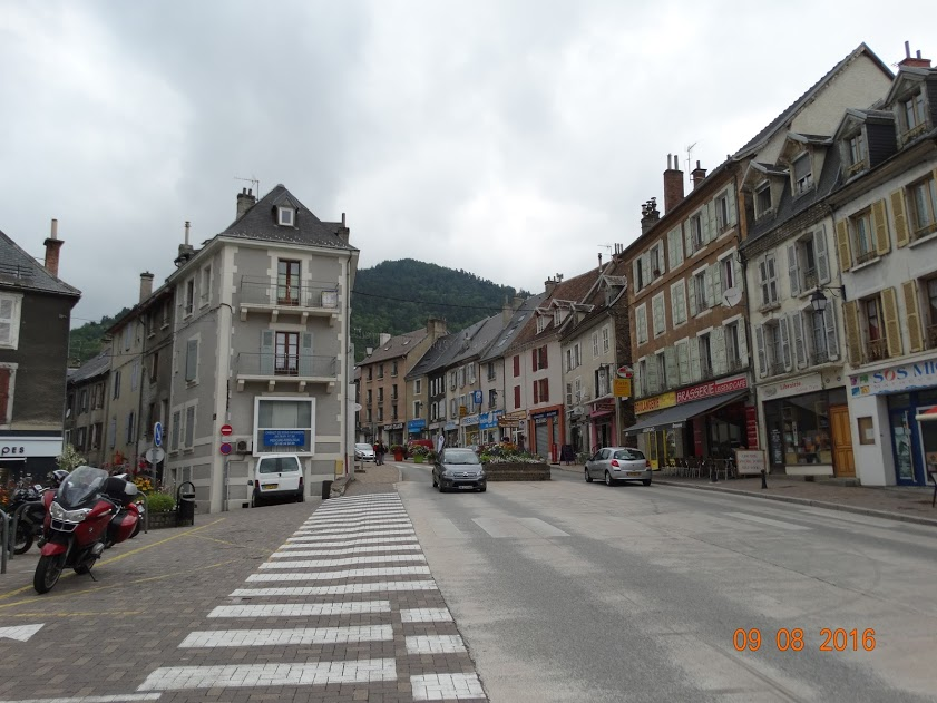 Centre-ville